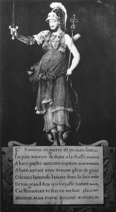 Nicoletto da Modena, Francis I of France as an Antique God, c. 1545, oil on panel, Paris, Bibliotheque Nationale